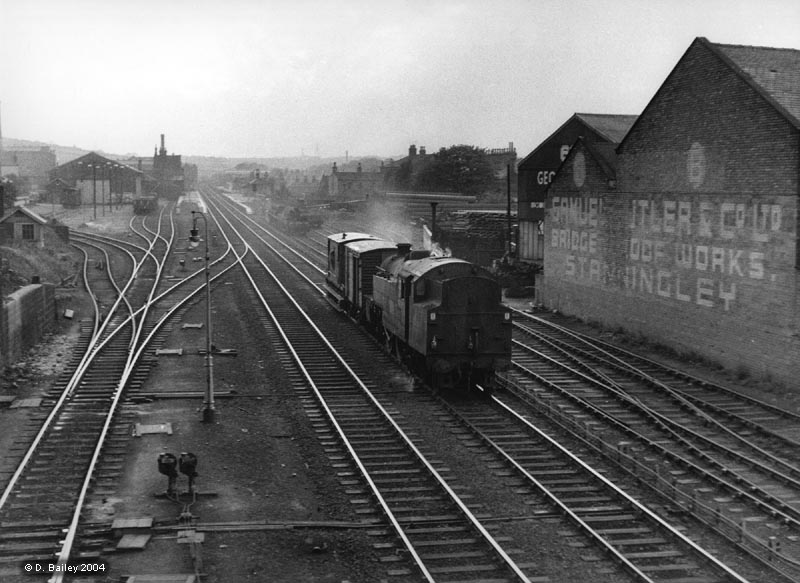 Short freight train to Leeds in Stanningley with a Fairburn 2-6-4T engine